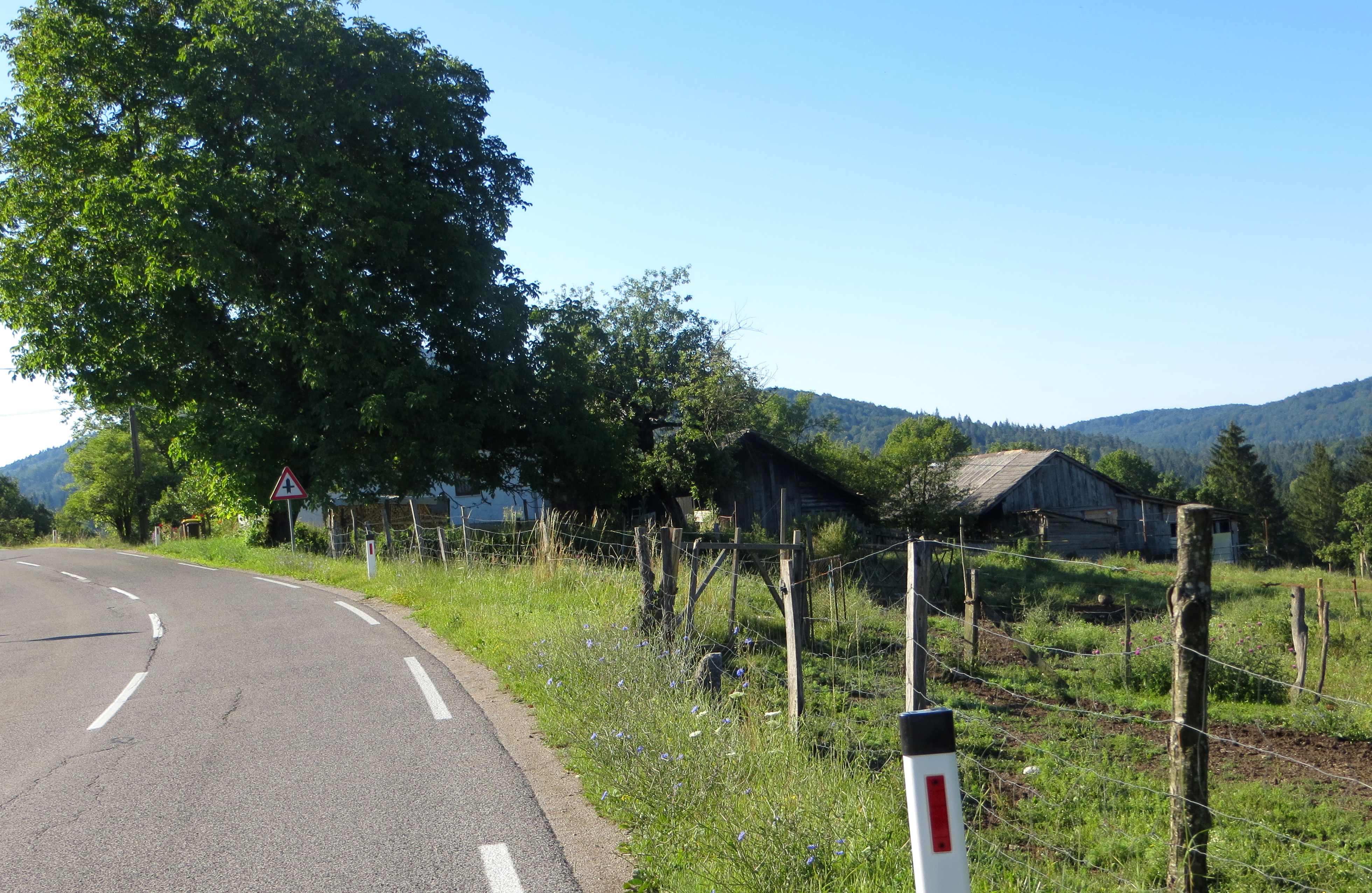 Rajndol, Municipality of Kočevje, Slovenia